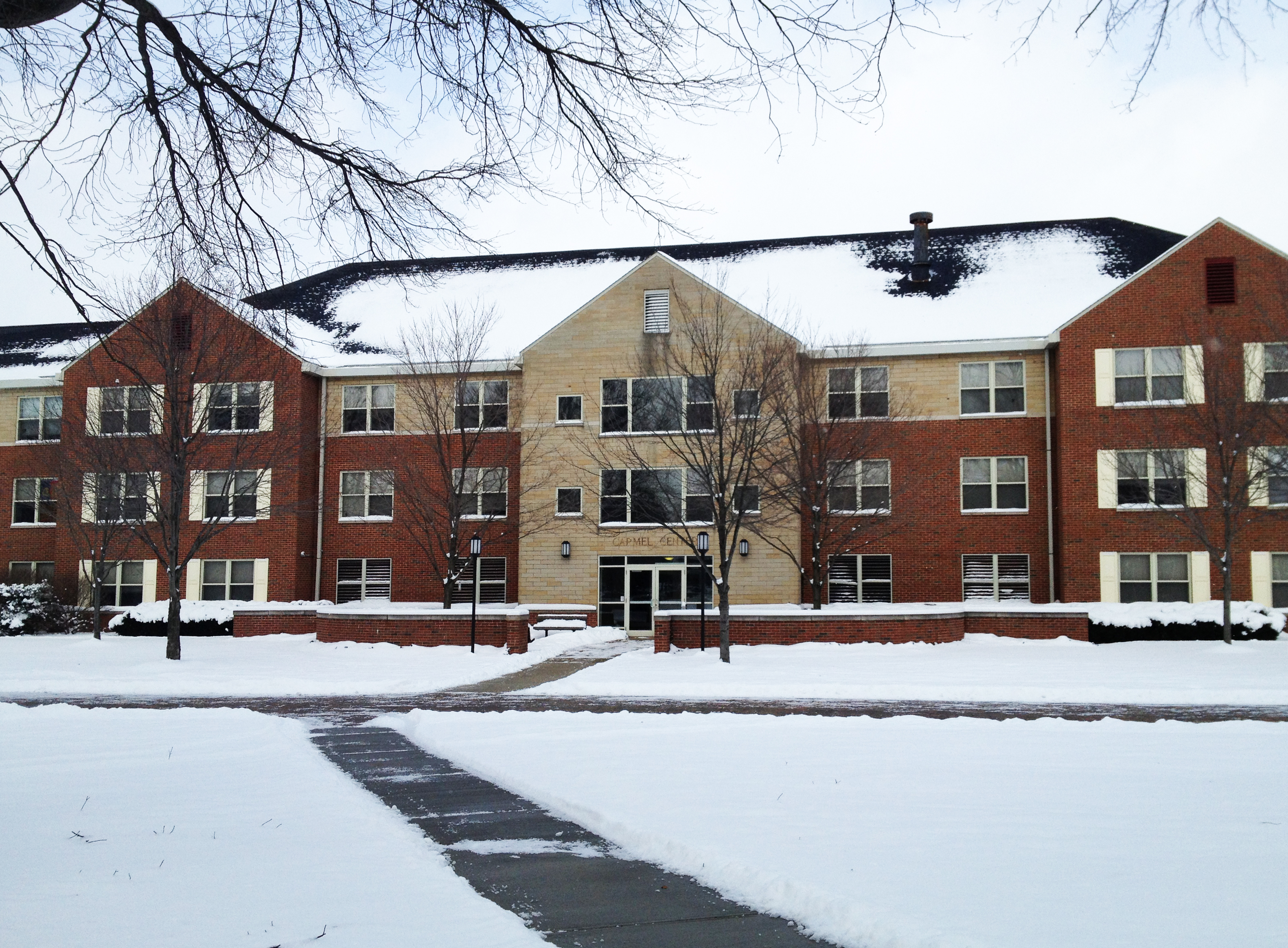 Carmel Hall on Baldwin Wallace University South Campus